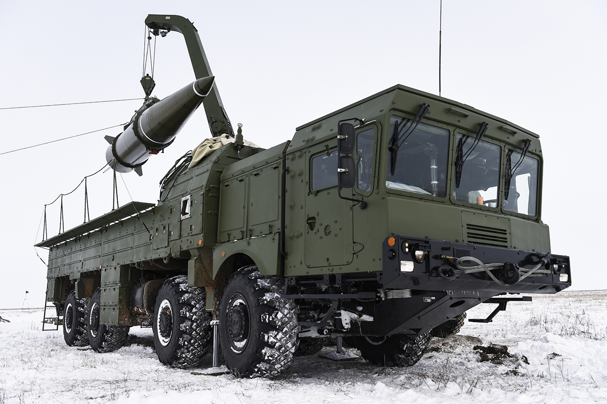 9T250 loading vehicle for Iskander-M system. Combat launching of the Iskander-M in the Kapustin Yar proving ground.